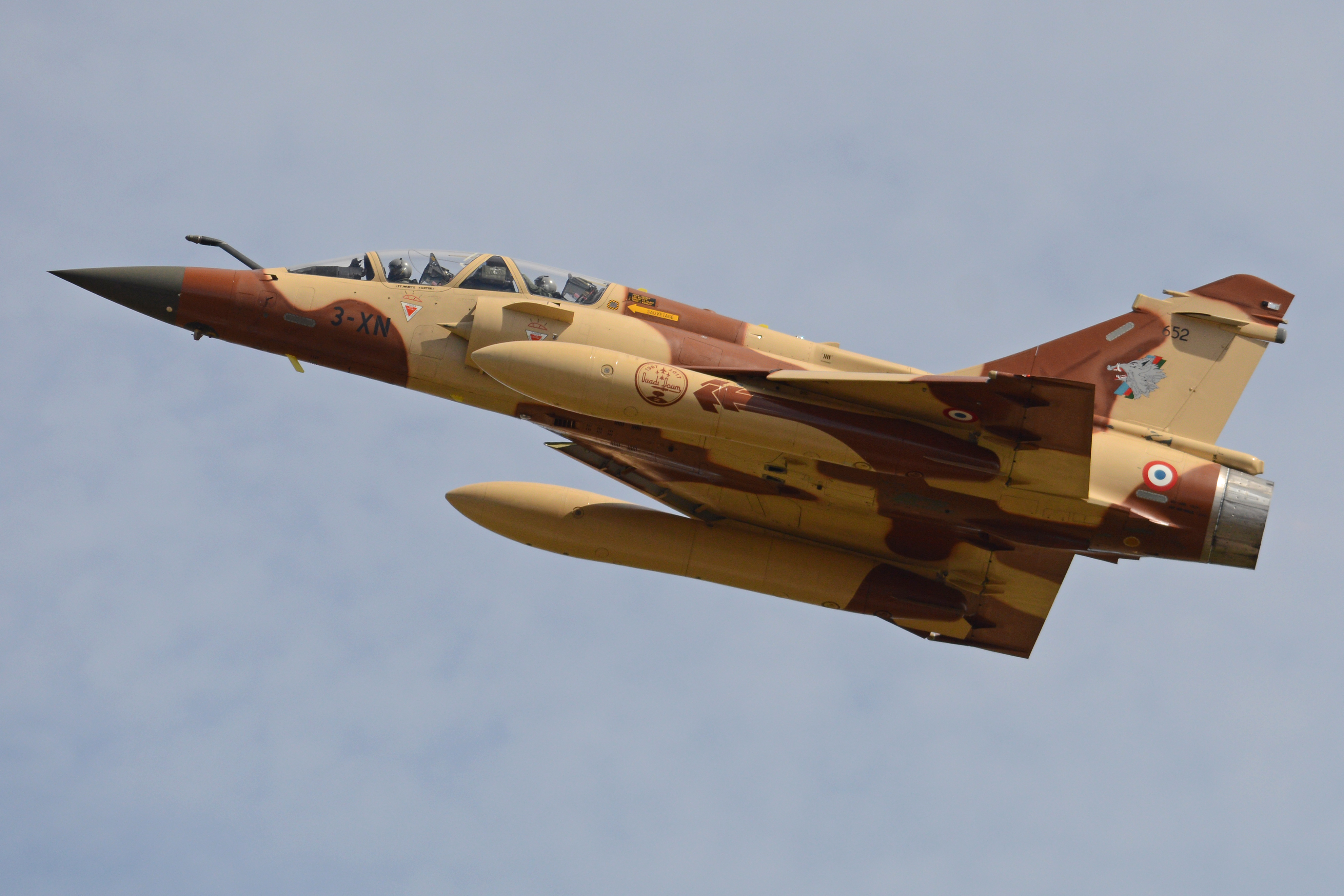 c/n 507. French military callsign ‘F-UGXN’. Operated by EC03.003 ‘Ardennes’ Escadron, French Air Force, based at Nancy air base. Seen departing after taking part in the 2017 Royal International Air Tattoo. RAF Fairford, Gloucestershire, UK. 17th July 2017